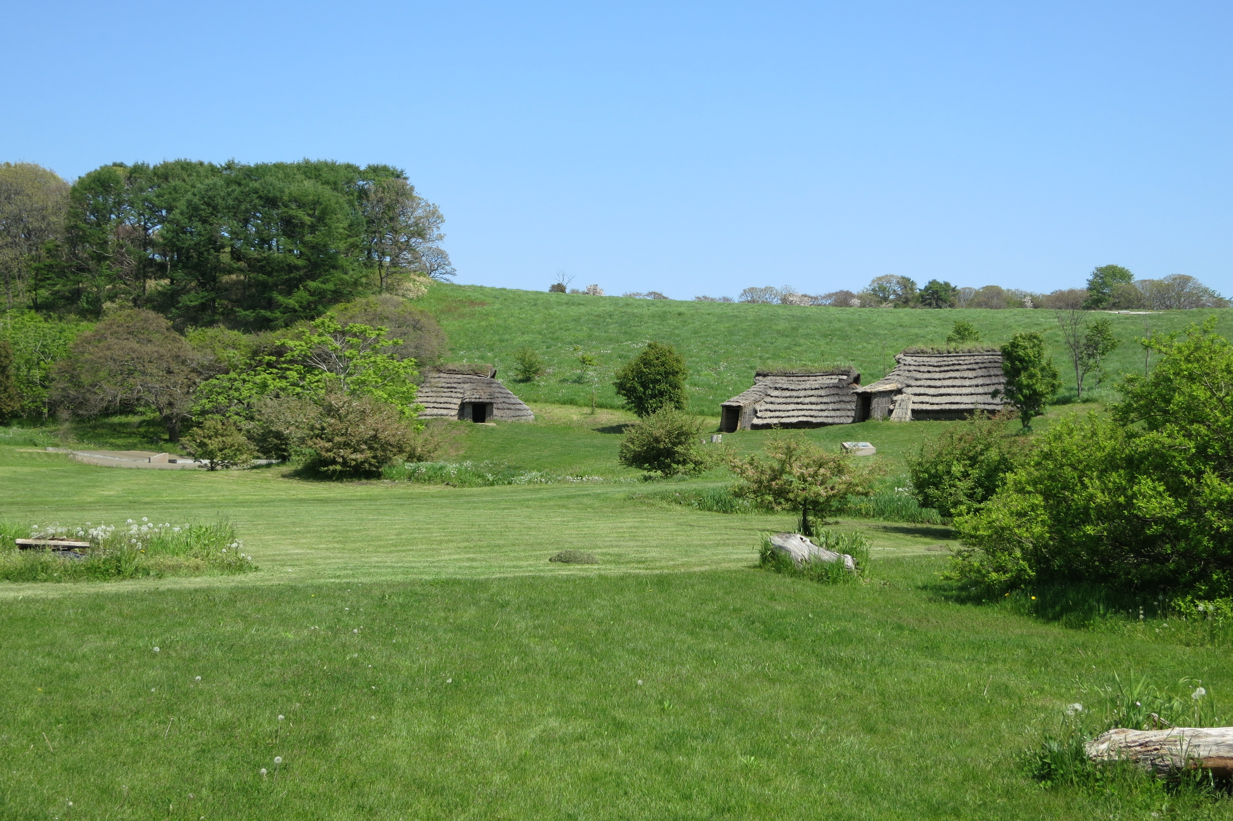 kitakogane kaizuka in Date City